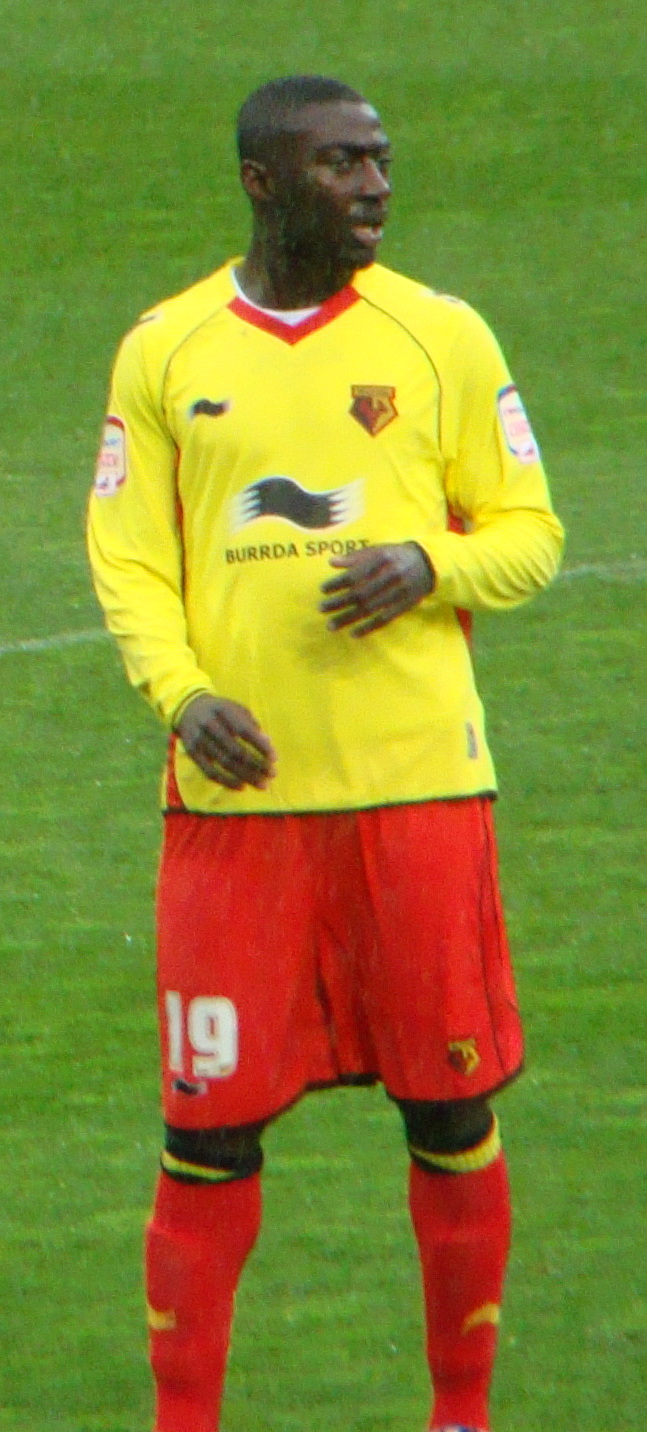 09/04/12 Cardiff v Watford, Championship, Cardiff City Stadium, Cardiff, Wales